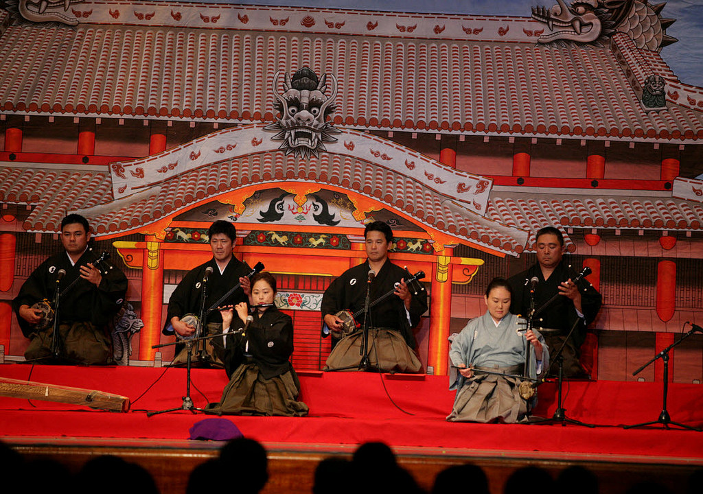 Uta Sanshin in Hawaii 2010 charity recital at the Hawaii Okinawan Center. Kenton Odo is seated in the back row, second from right.